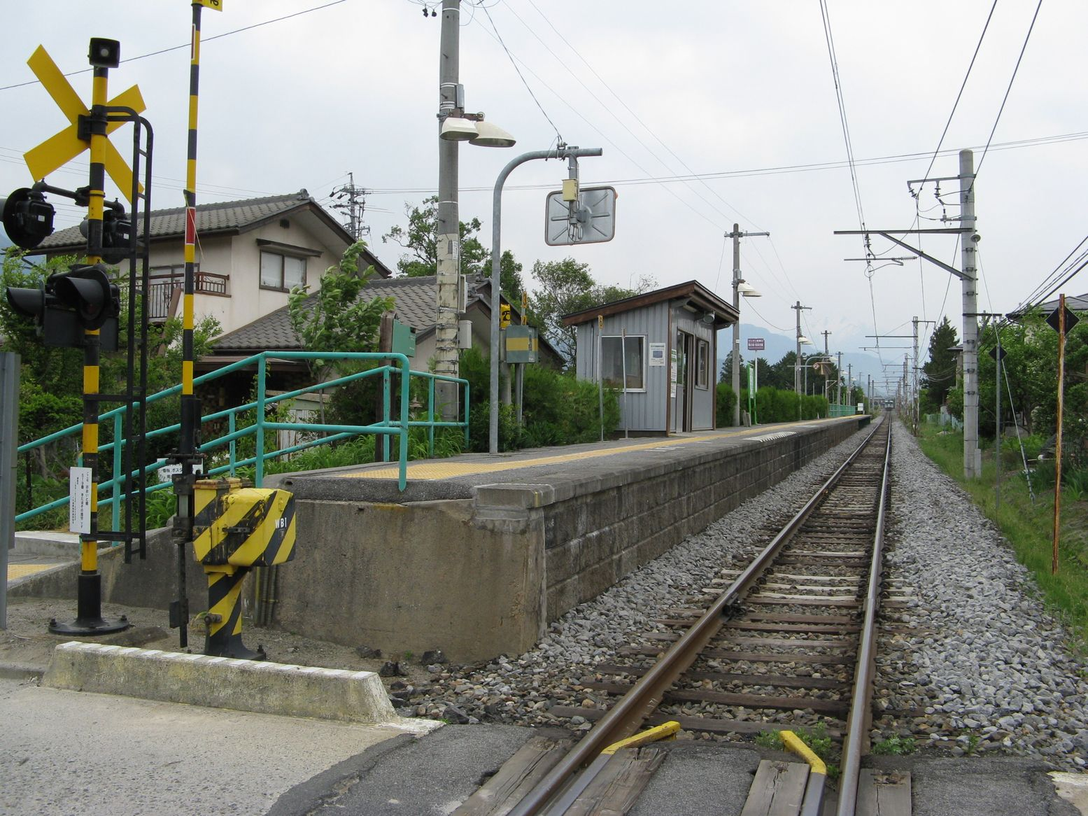 Kita-Hosono Station in Matsukawa, Nagano Prefecture, Japan